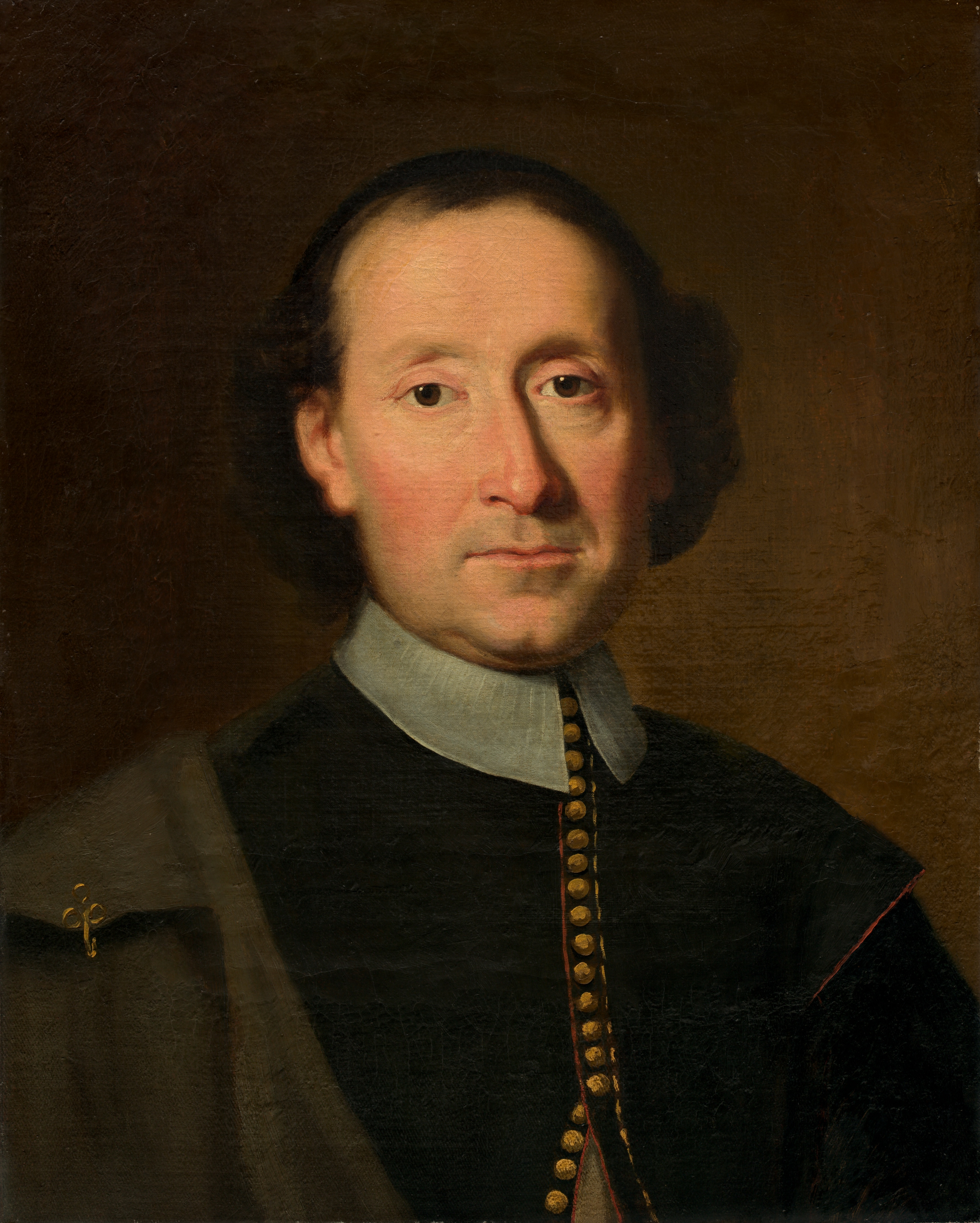 Often thought to be of Adriaen van der Donck.